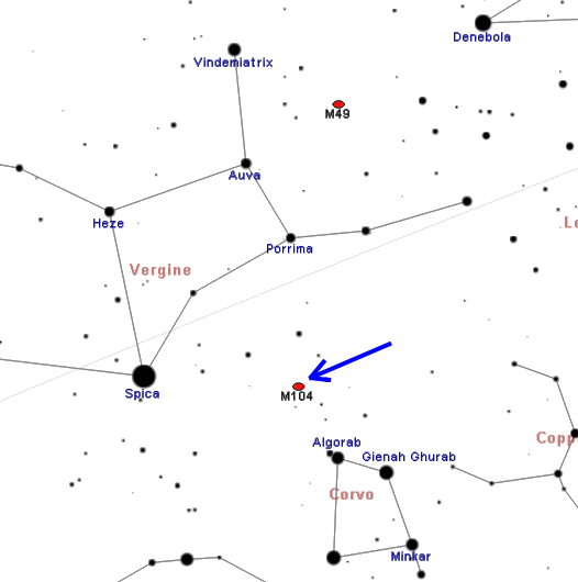 M104